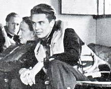 Marius Eriksen (1922-2009), Norwegian aviator, alpine skier and actor (cropped from File:Ole Friele Backer Little Norway Canada.jpg)